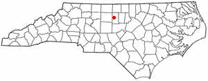 Category:North Carolina Dot Maps